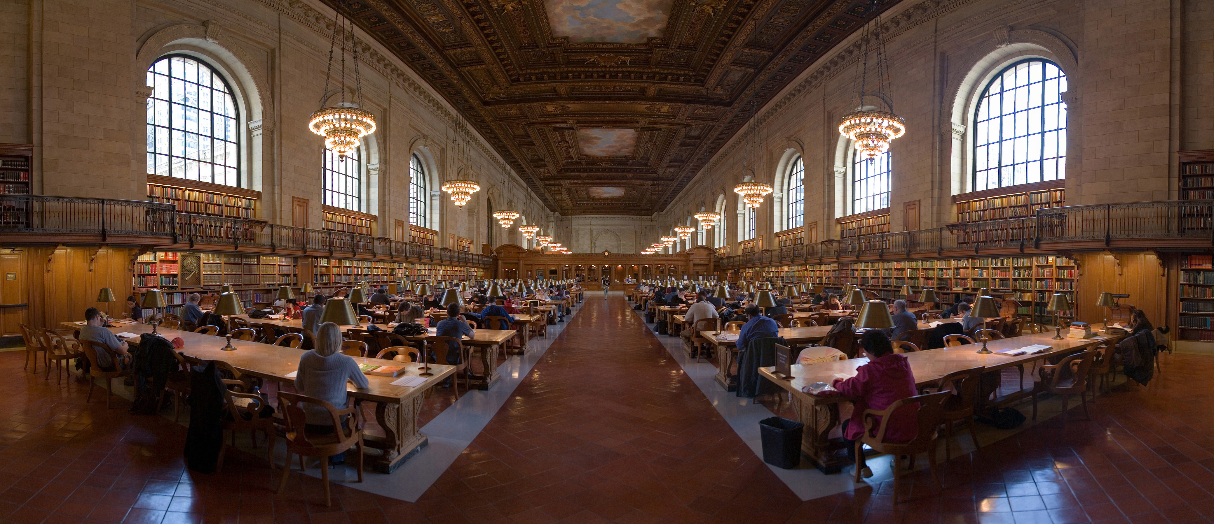 A panorama of a research room taken at the New York Public Library with a Canon 5D and 24-105mm f/4L IS.